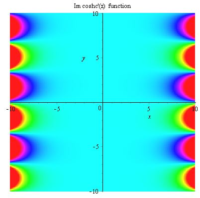 Coshc'(x) Im density plot